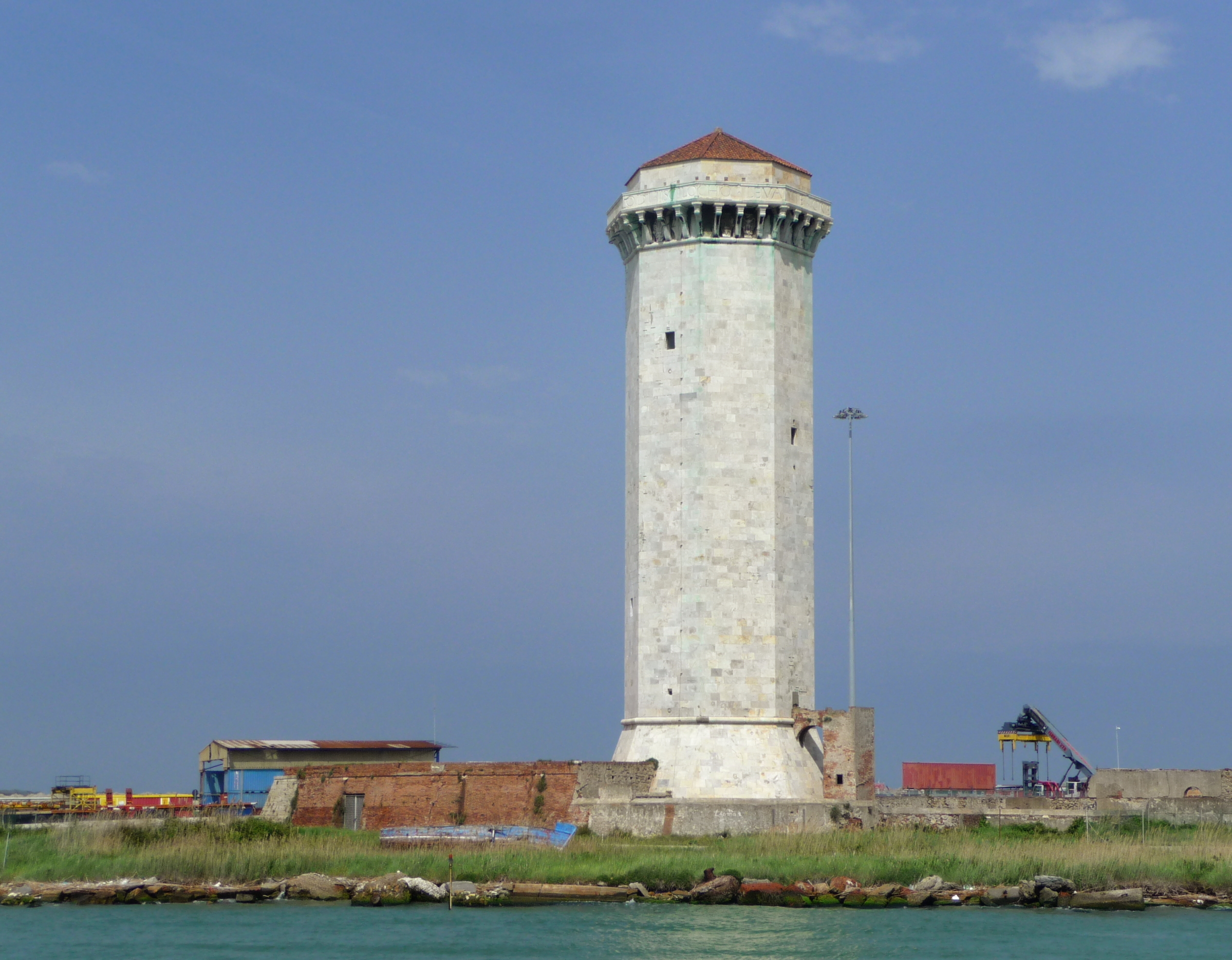 Torre del Marzocco, Port of Livorno, Tuscany, Italy - Coastal tower (15th century)